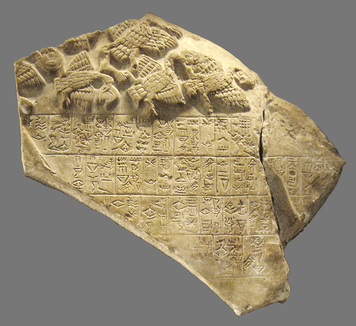 One fragment of the victory stele of the king Eannatum of Lagash over Umma, called « Stele of Vultures ». Historical side. Limestone, circa 2450 BC, Sumerian archaic dynasties. Found in 1881 in Girsu (now Tello, Iraq), Mesopotamia, by Édouard de Sarzec.